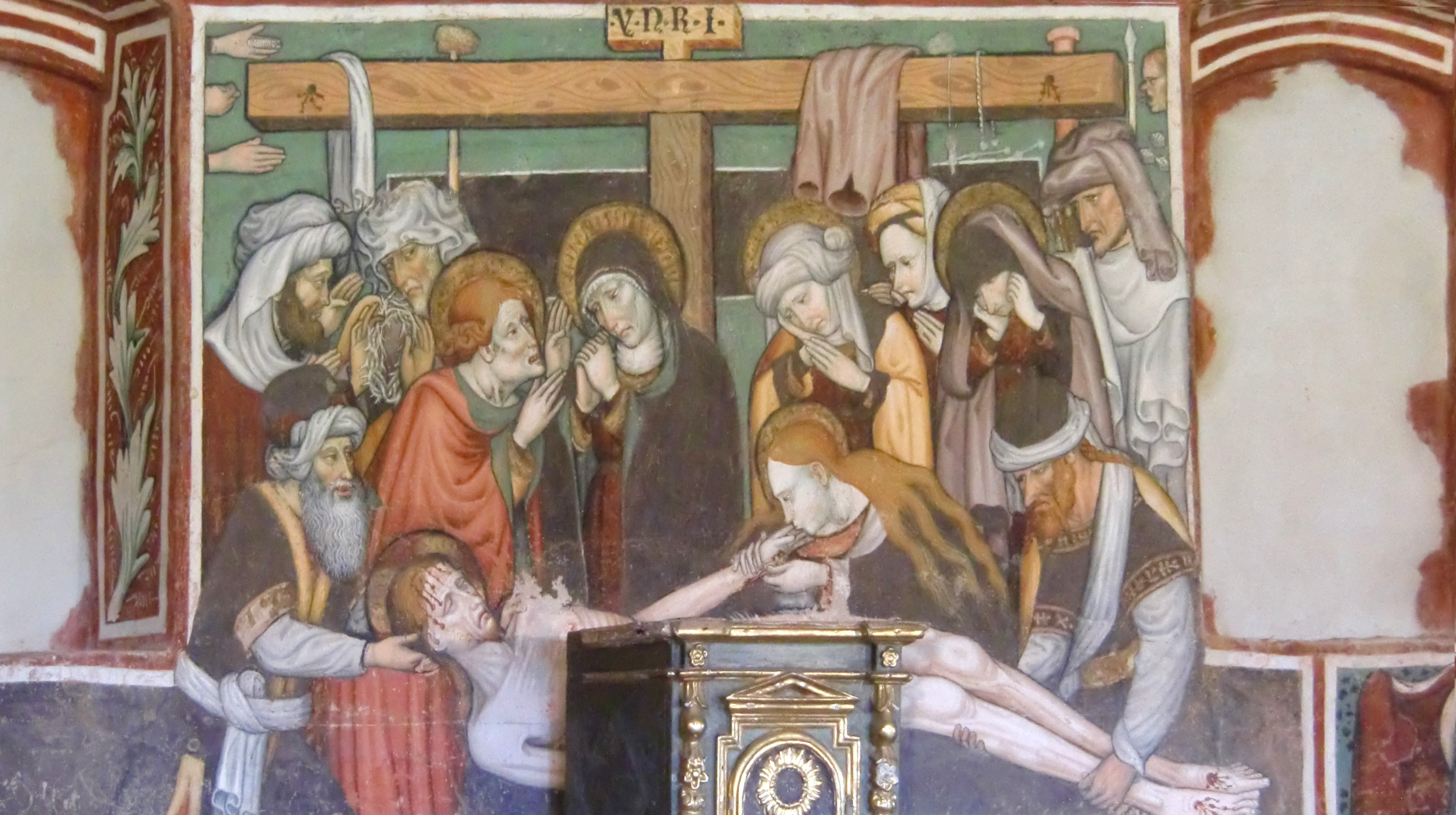 Aimone Duce, Deposition from the cross, ca.1430, fresco, Cappella di Missione, Villafranca Piemonte